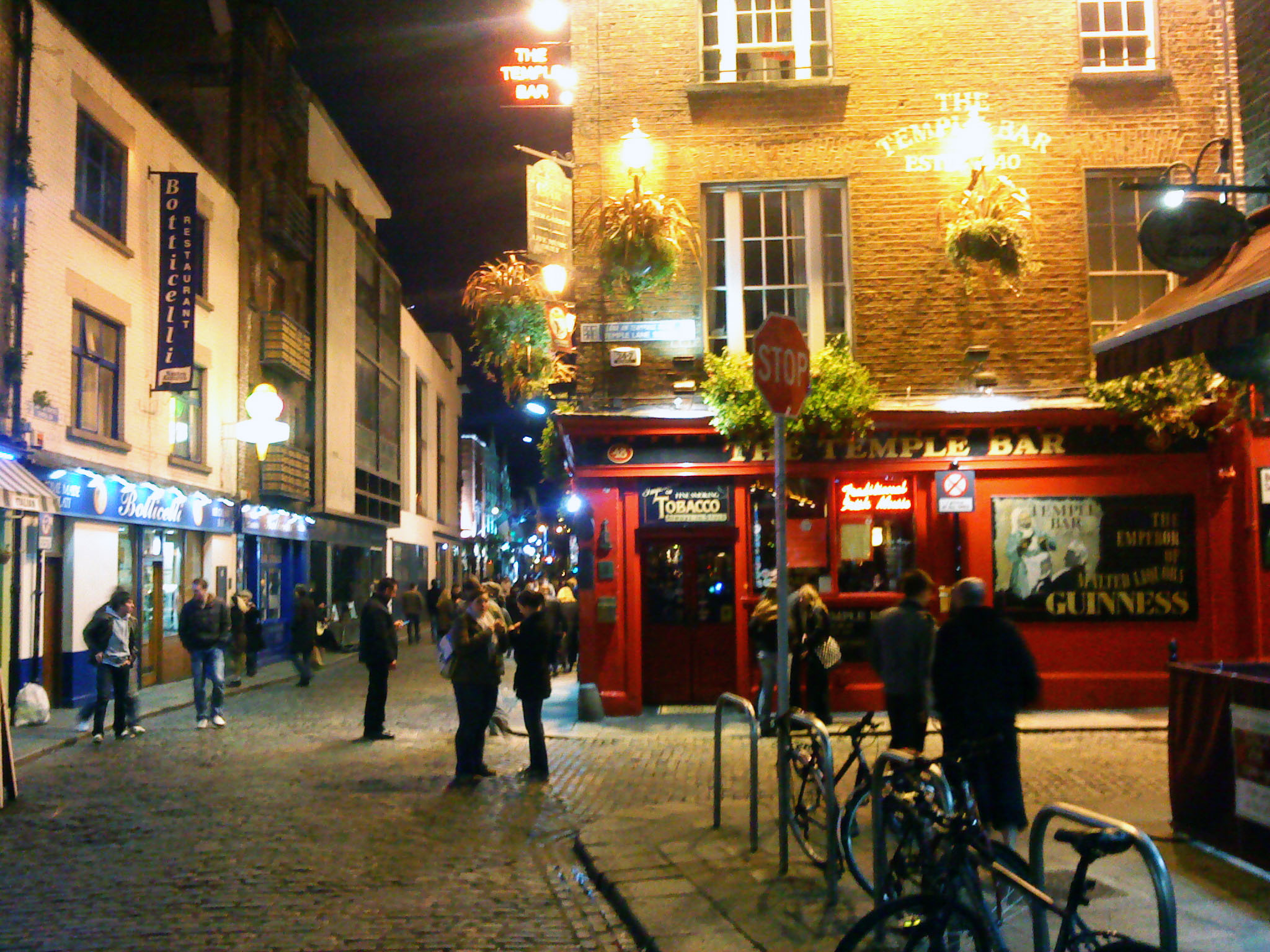 Tample Bar picture taken by me at the 22/03/2009, in Dublin, Ireland